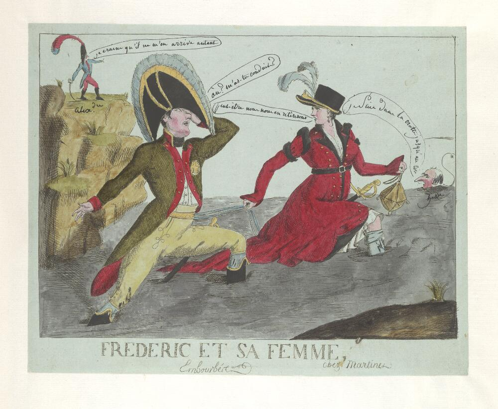 French political cartoon; MS pen additions supplying speeches of the figures